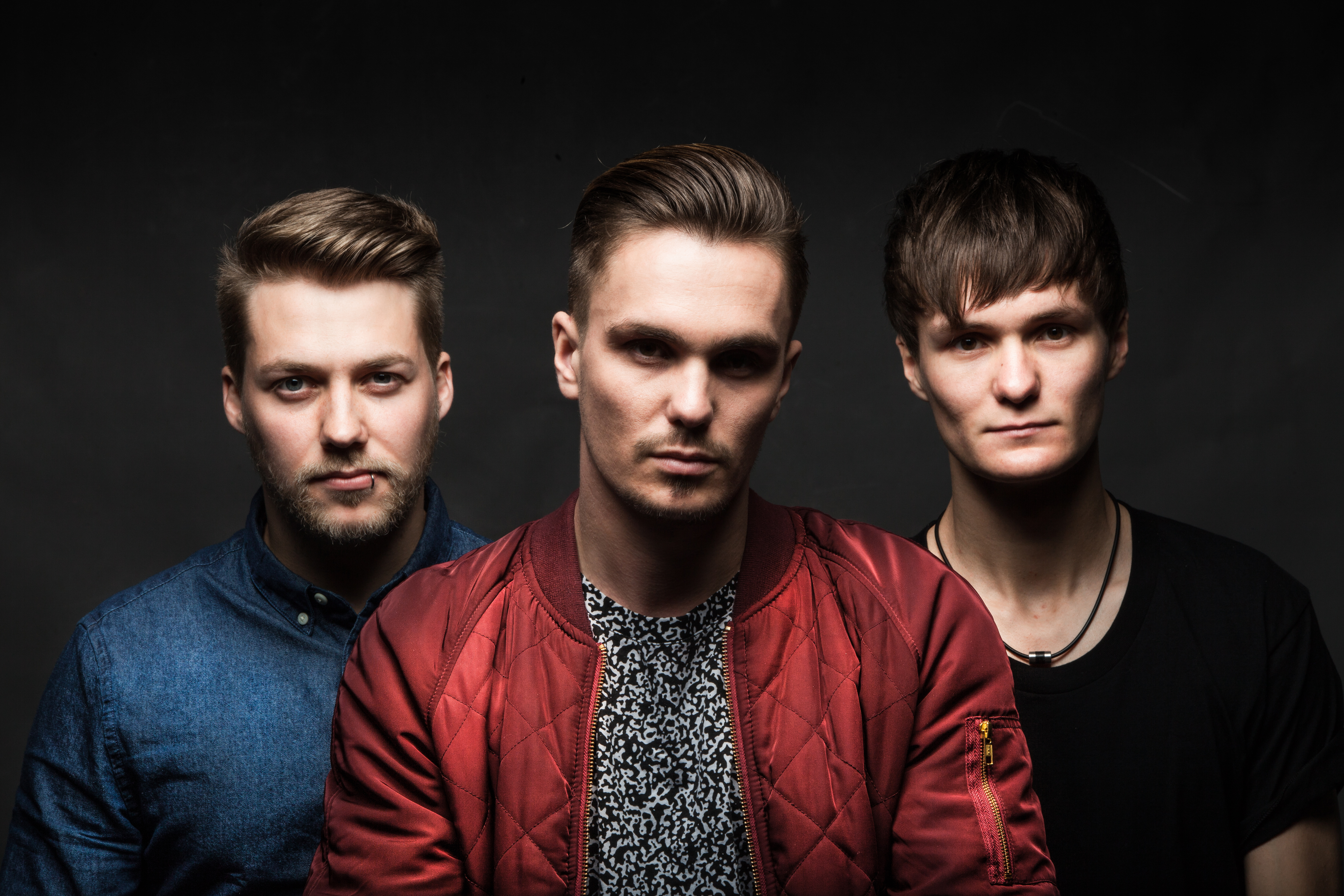 Presspic of the German band Killerpilze 2014